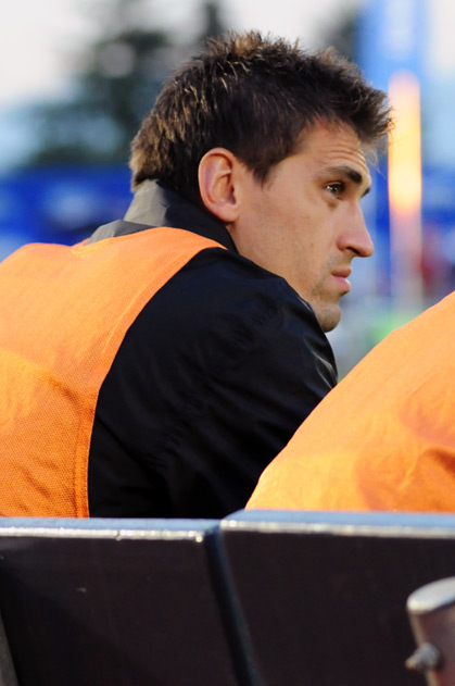 Photo of soccer player, Srdjan Djekanović.